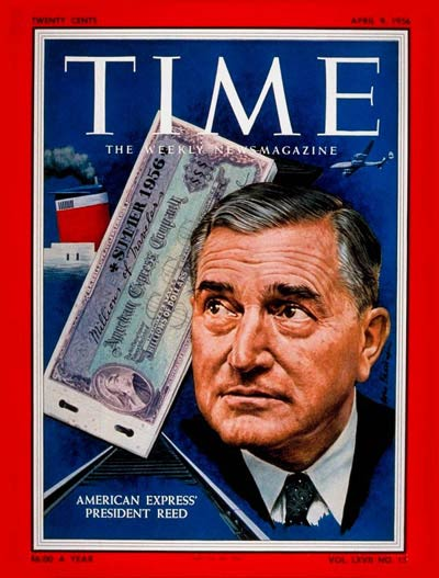 Time magazine, Volume 67 Issue 15. Front cover is an illustration of Ralph T. Reed, president of the American Express Company 1944–1960 More information